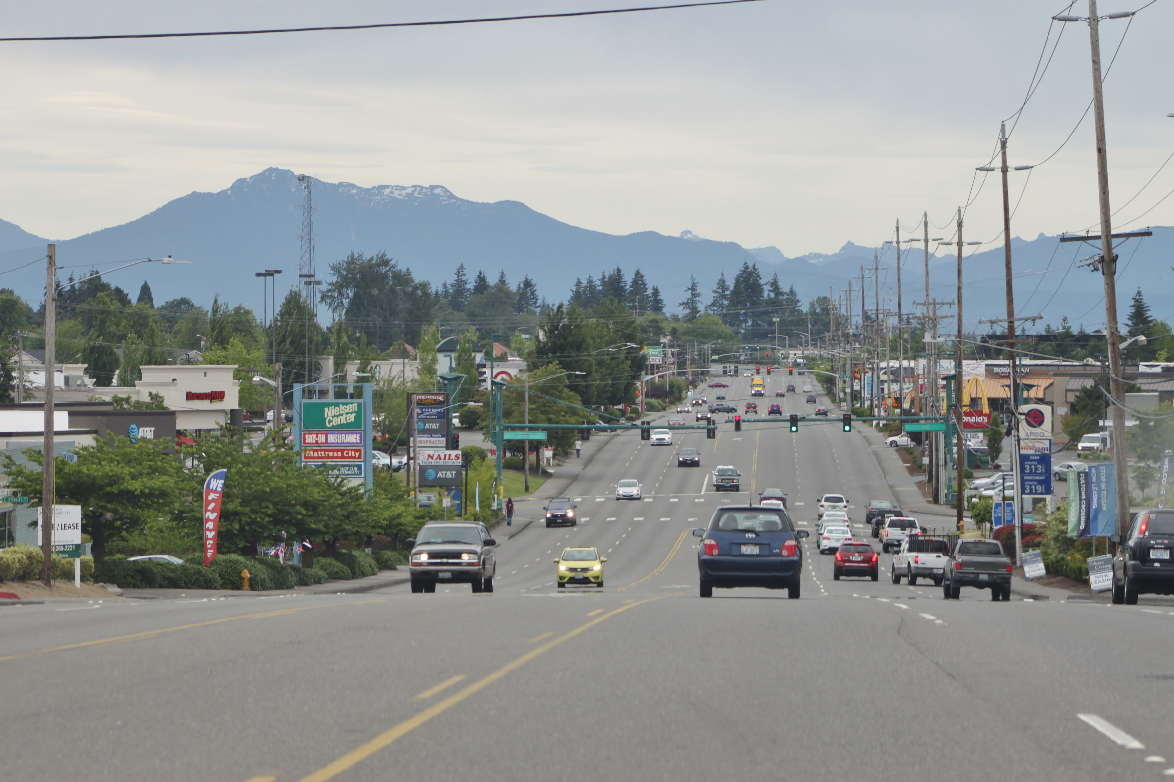 Looking northbound on Washington State Route 99 (Everett Mall Way) in Everett, Washington, US.